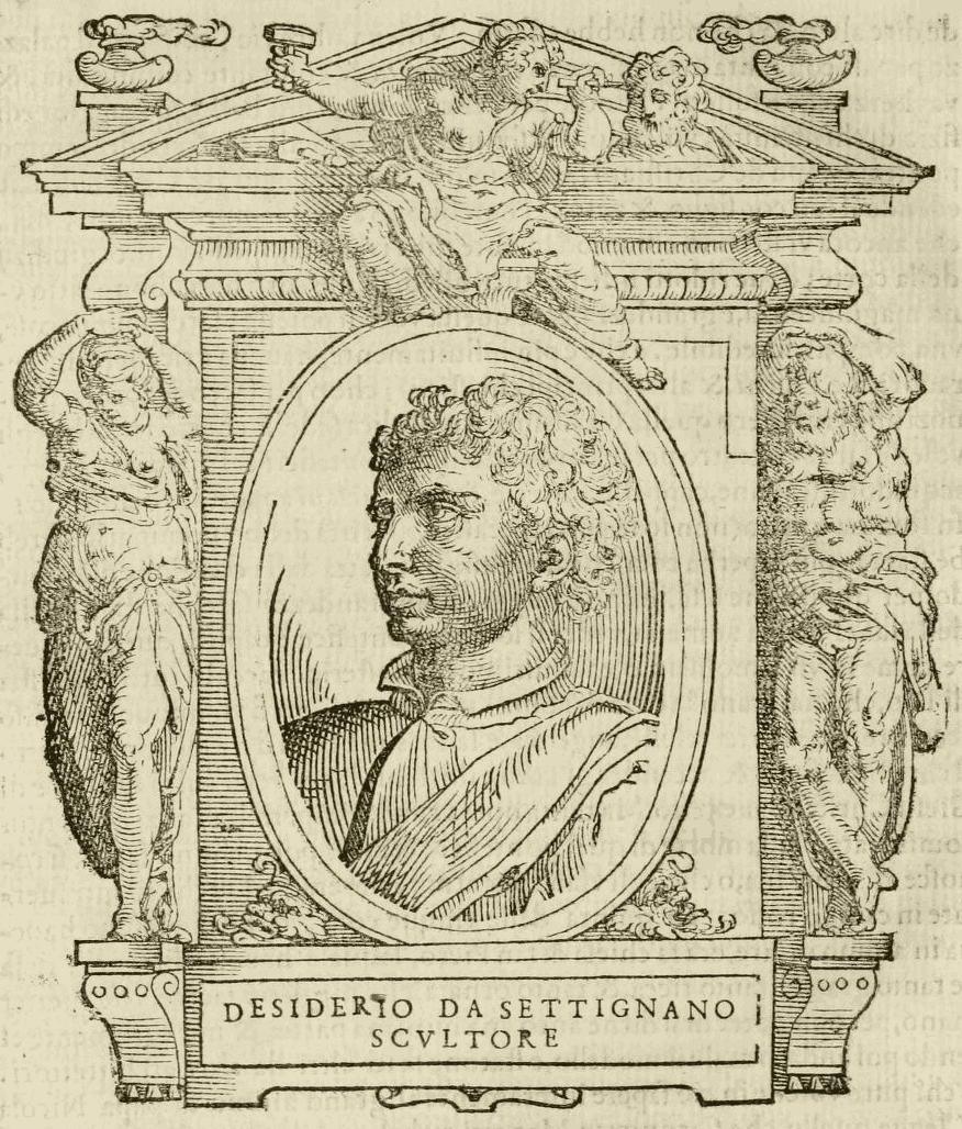 Desiderio da Settignano, sculptor. Illustration from Vasari’s Le Vite.